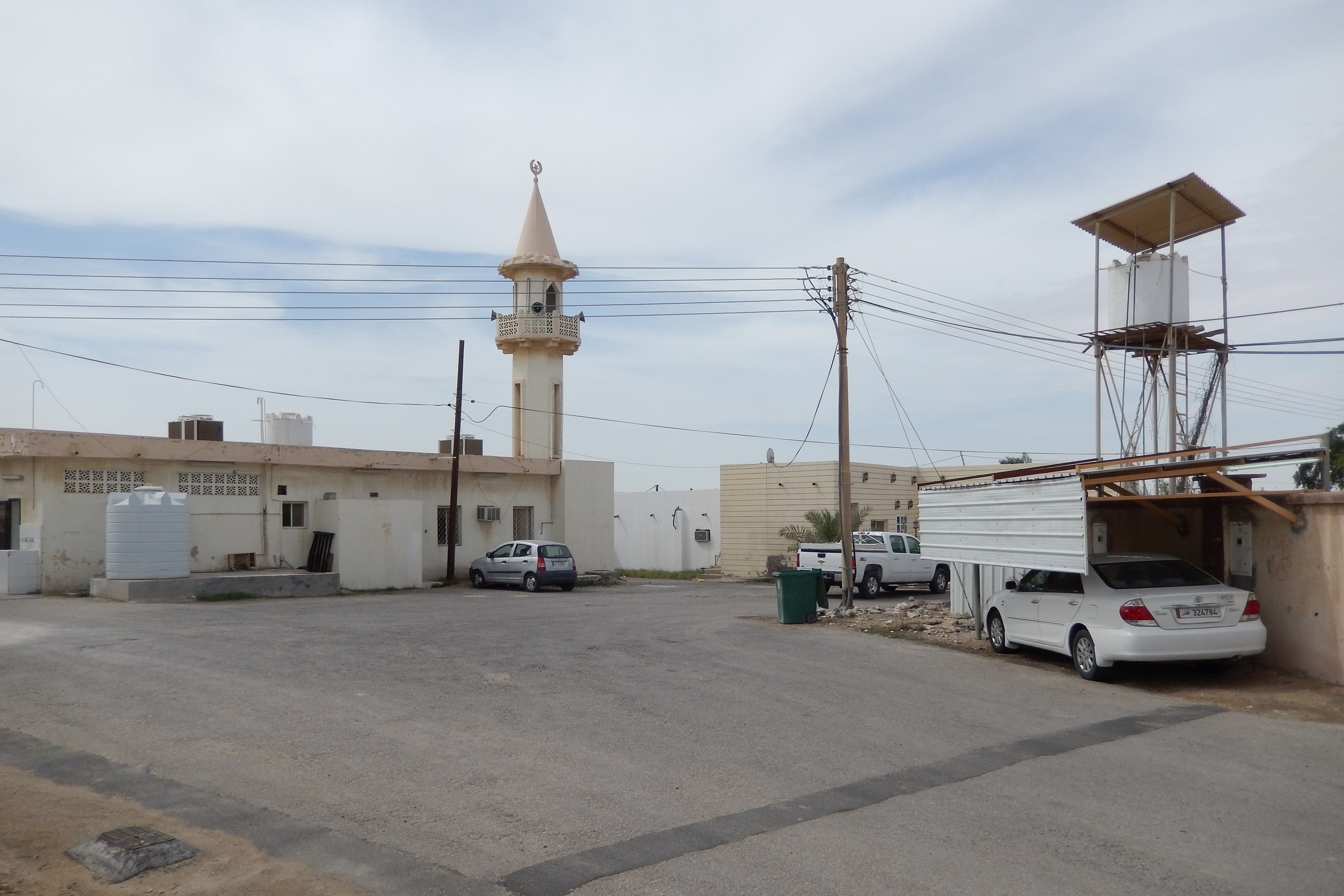 Scene with mosque in Al Utouriya, a village 42 km to the northwest of Doha (in the municipality of Al Rayyan, Qatar).(There are many different ways of spelling Al Utouriya; one also encounters Al `Aţūrīyah, Al Athārīyah, A-uriyah (on Google Maps) or Al Otouriyah.)